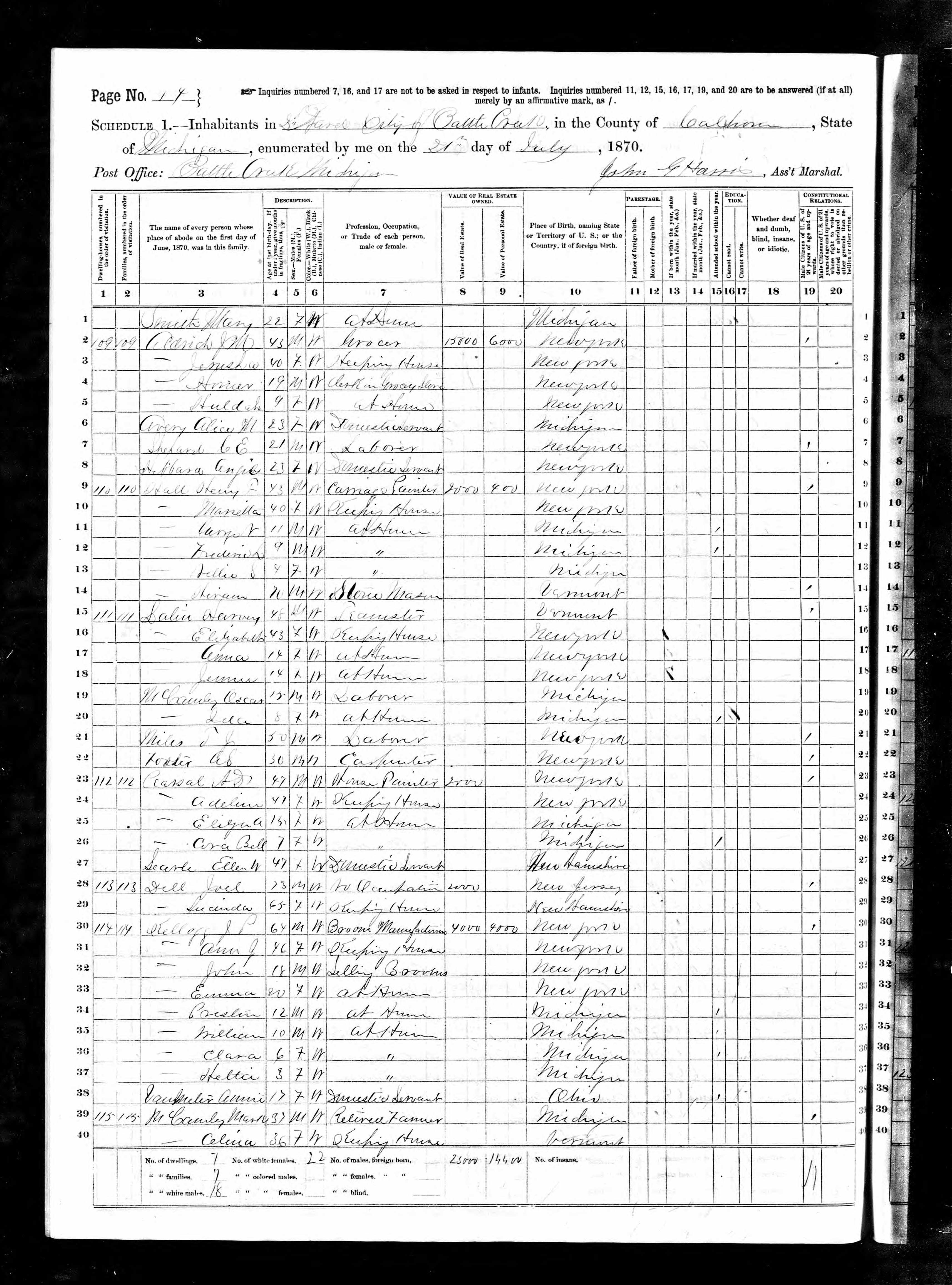 John Harvey Kellogg in the 1870 census living in Battle Creek, Michigan at age 18.